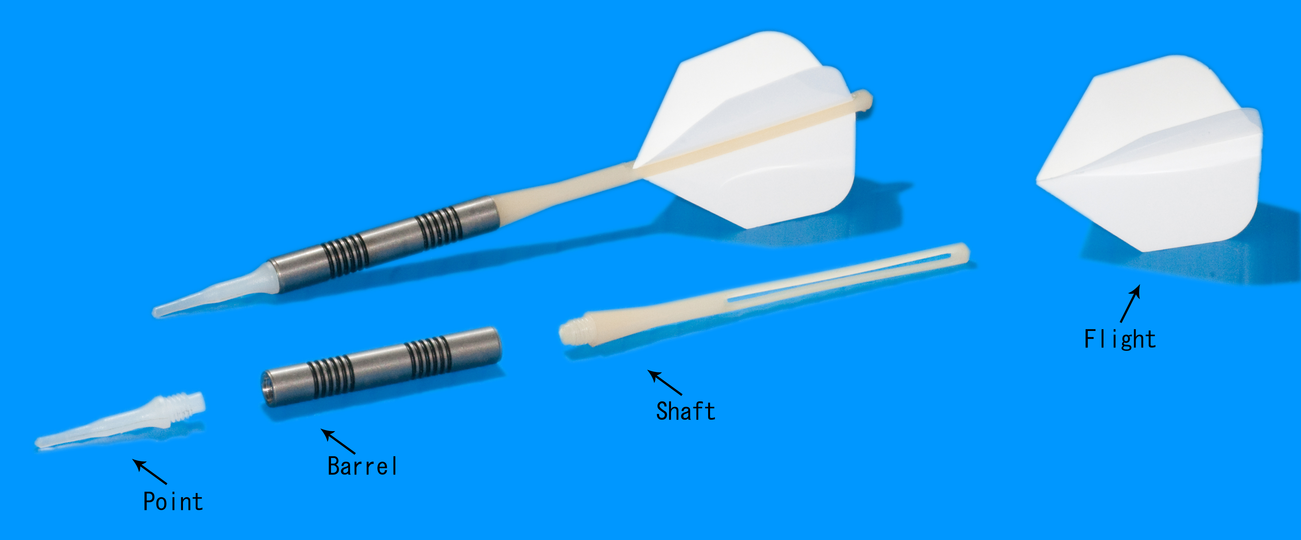 Parts of the dart arrow. Darts arrow has four parts Point,Barrel,Shaft and Flight